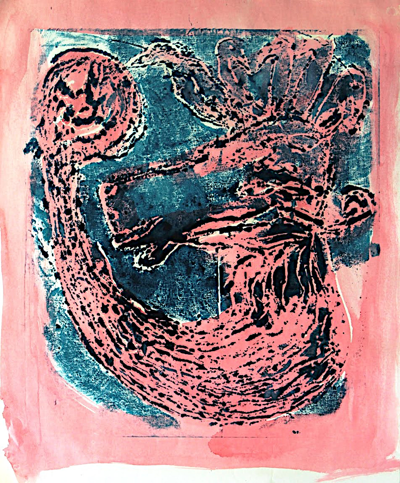 Teos 2 by Olavi Fellman